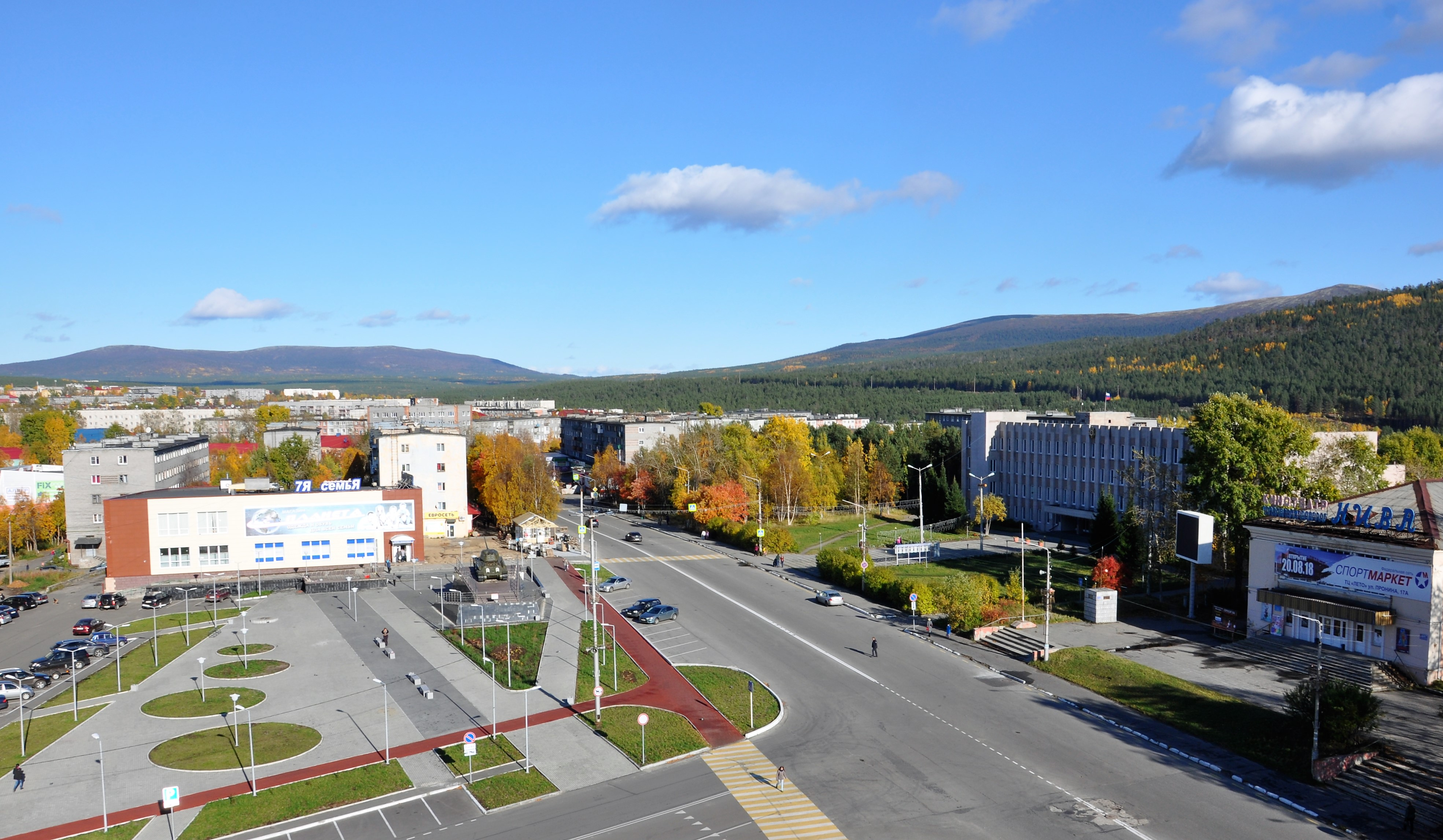 Central square in Kandalaksha